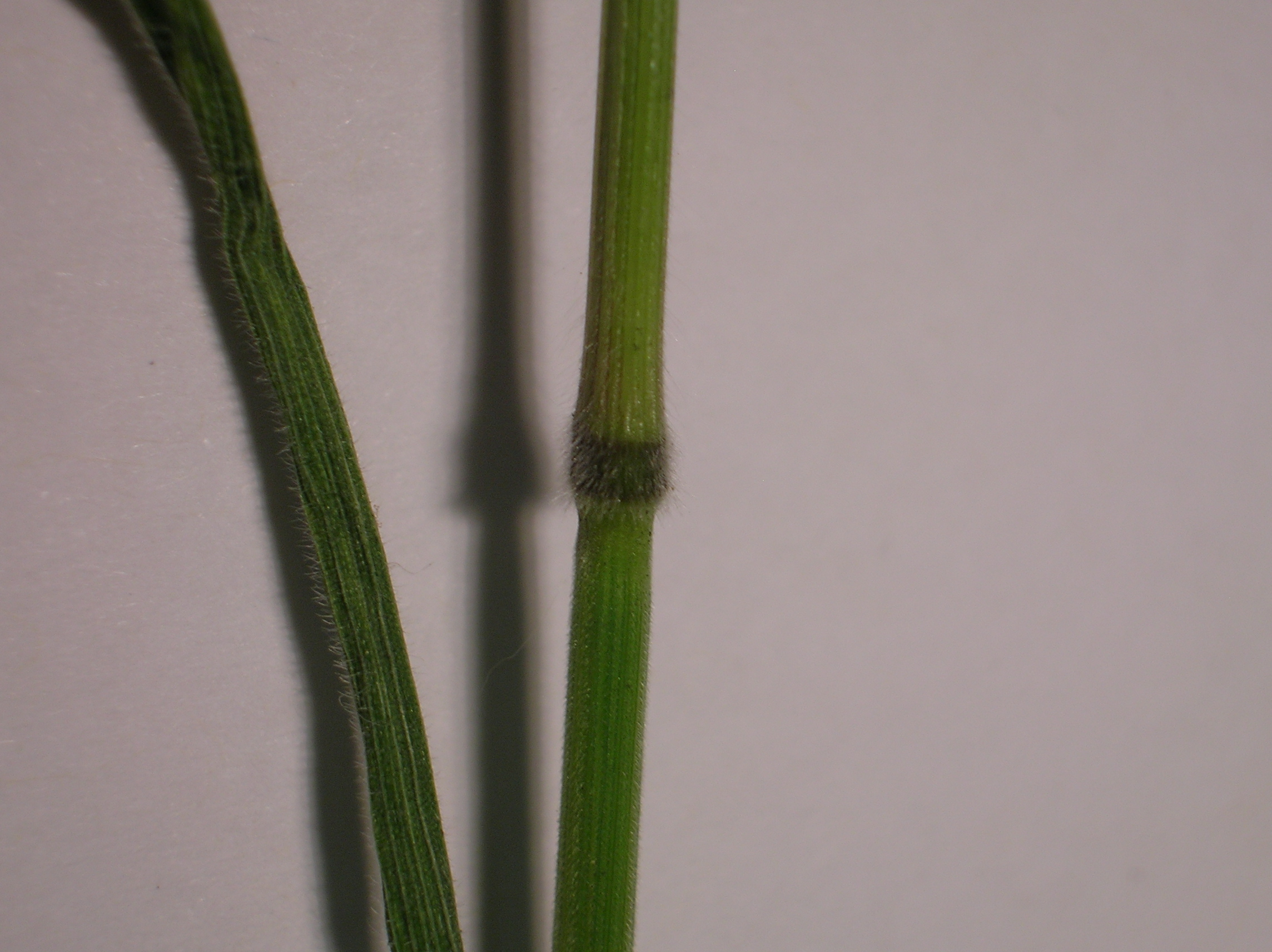 A node of Bromus commutatus, the Meadow Brome. Spier's, Beith, Ayrshire, Scotland.